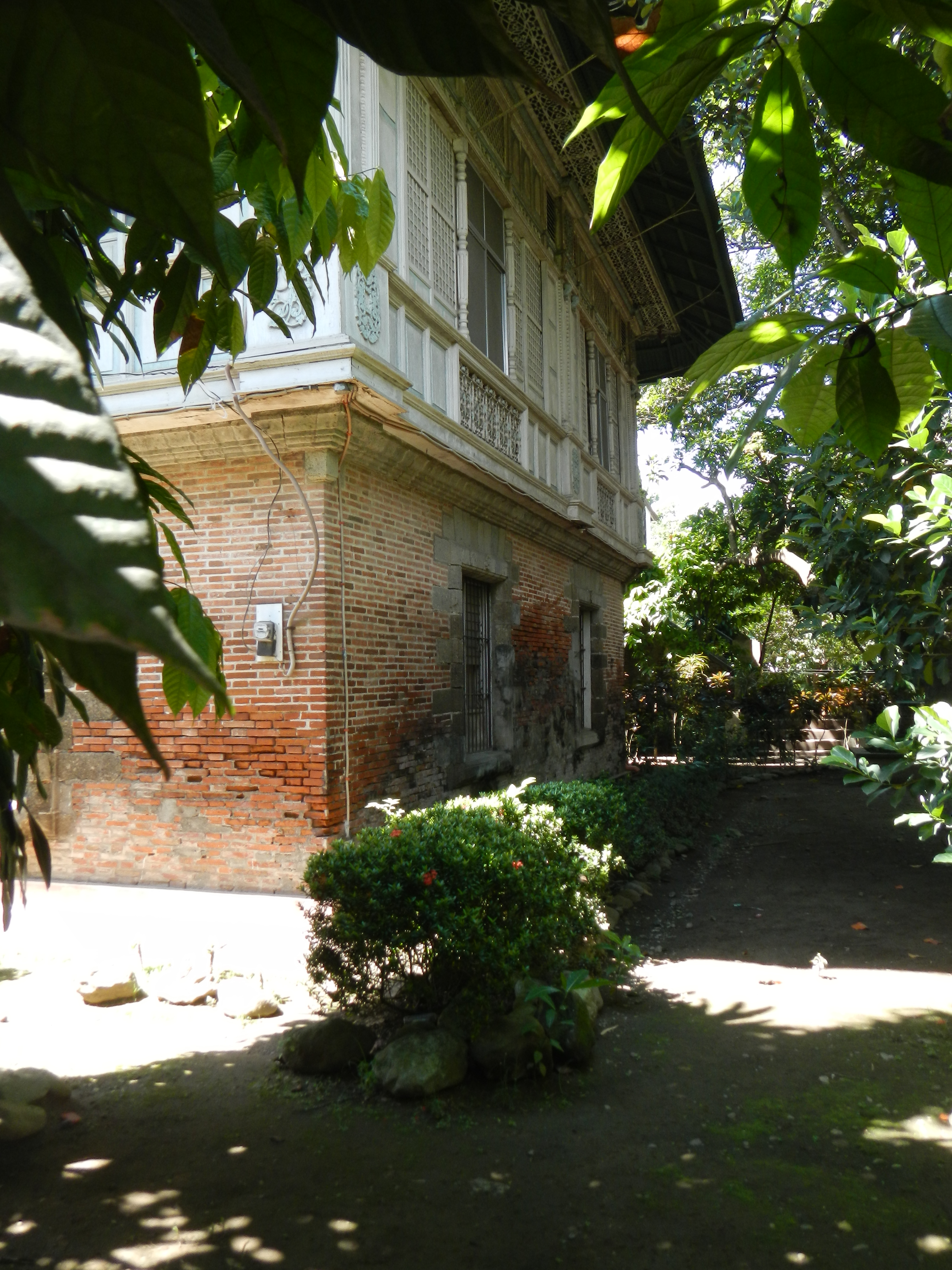 Crispulo Sideco House[1] San Isidro, Nueva Ecija The Sideco house was built in the 19th century by Crispulo Sideco. It typifies the houses of the Floral period in the Philippine colonial architecture, where ogee arches, filigreed wooden panels, grilles wrought in curlicues and floral and foliate designs abound in the house as basic structural elements or as ornaments. It had been the seat of General Emilio Aguinaldo's First Philippine Republic when he established it as his headquarters in San Isidro during the last part of his odyssey from the American forces. San Isidro, Nueva Ecija[2]